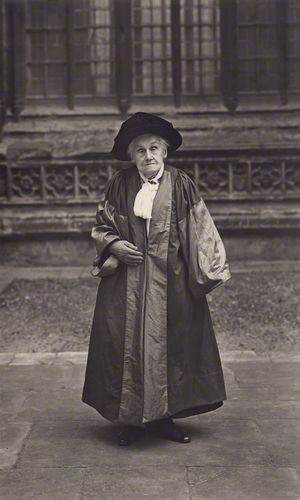 Dame Elizabeth Wordsworth (1840–1932), British author and academic, founding principal of Lady Margaret Hall, Oxford, and founder of St. Hugh's College, Oxford. She wears the convocation gown of a Doctor of Civil Law.